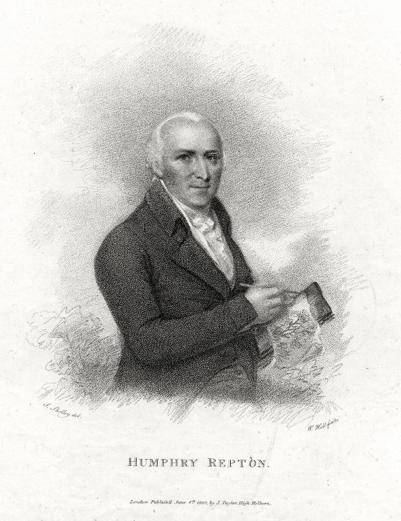 Portrait of the landscape gardener Humphry Repton; half length, standing, to the right, holding a sketch of a flower, looking at viewer; after Samuel Shelley; published by Josiah Taylor (1761–1834)